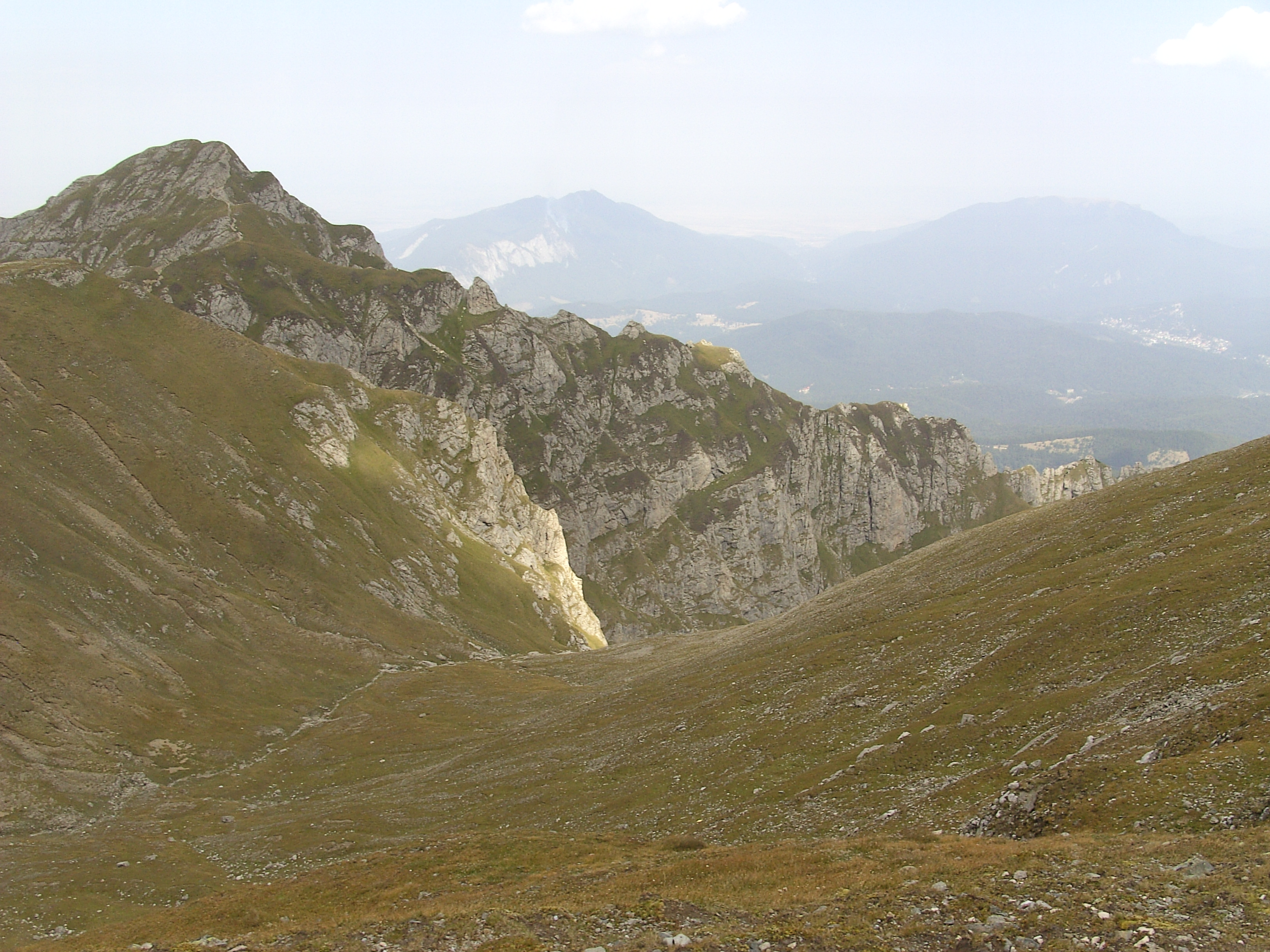 Bucsoiu Peak